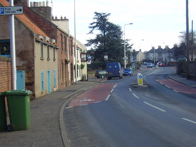 West Barns - Dunbar The main road through West Barns towards Dunbar with the Mason's Arms on the left.